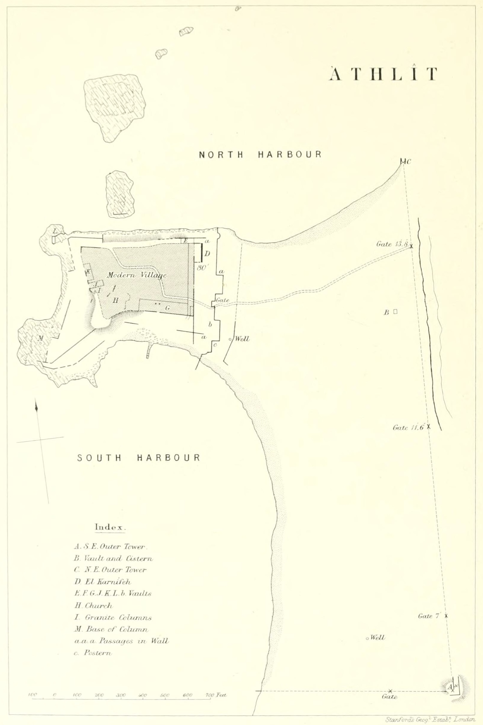 Athlit from the 1871-77 Palestine Exploration Fund Survey of Palestine